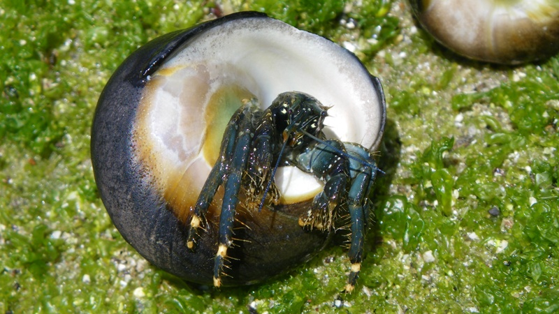 Clibanarius virescens (Krauss, 1843)